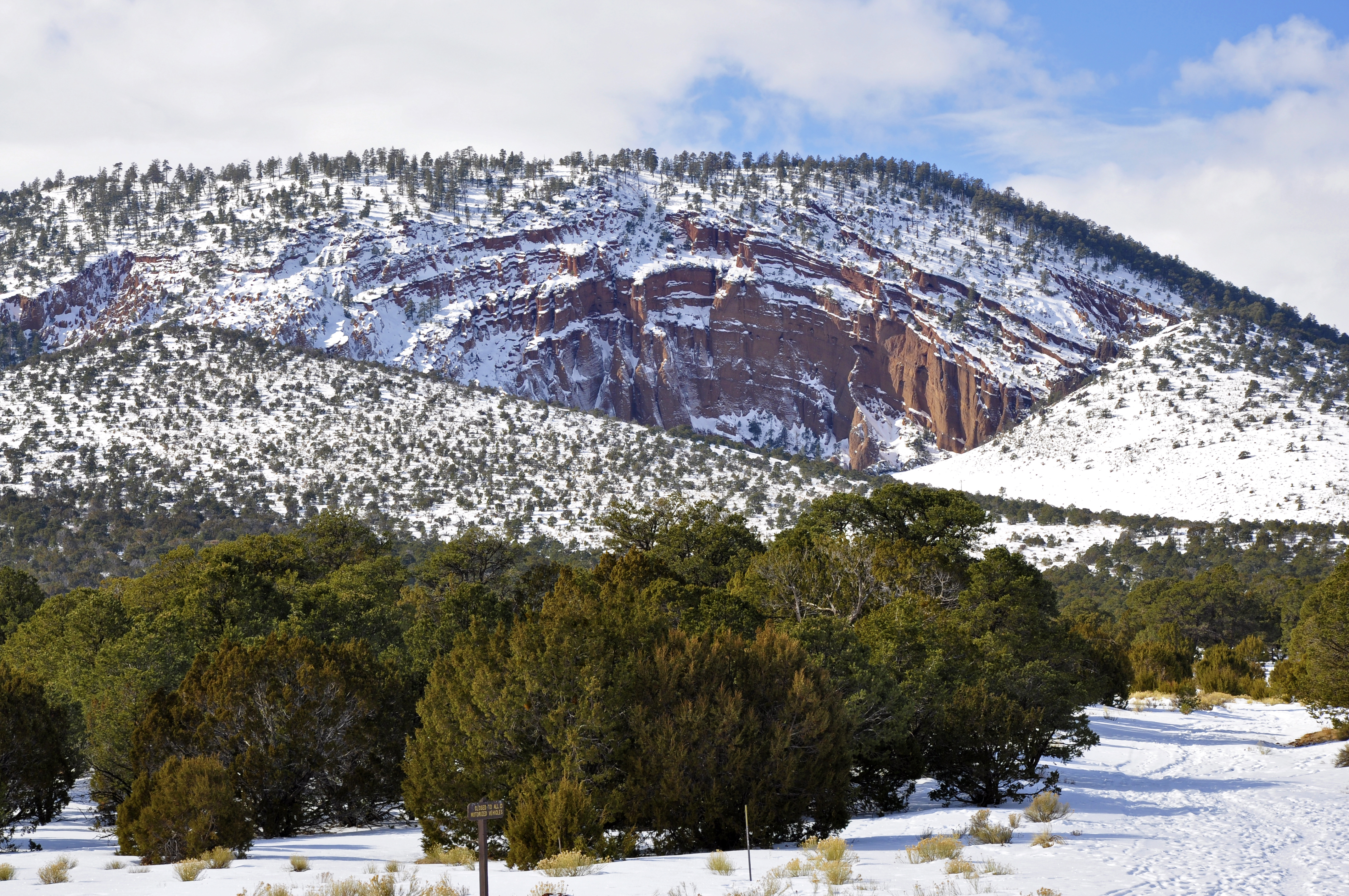 Red Mountain with snow accentuating the imploded volcano. Information about the easy, but very rewarding, hike into the center of Red Mountain can be found at Photo taken on 12-29-09 by Brady Smith. Credit: USDA Forest Service, Coconino National Forest.